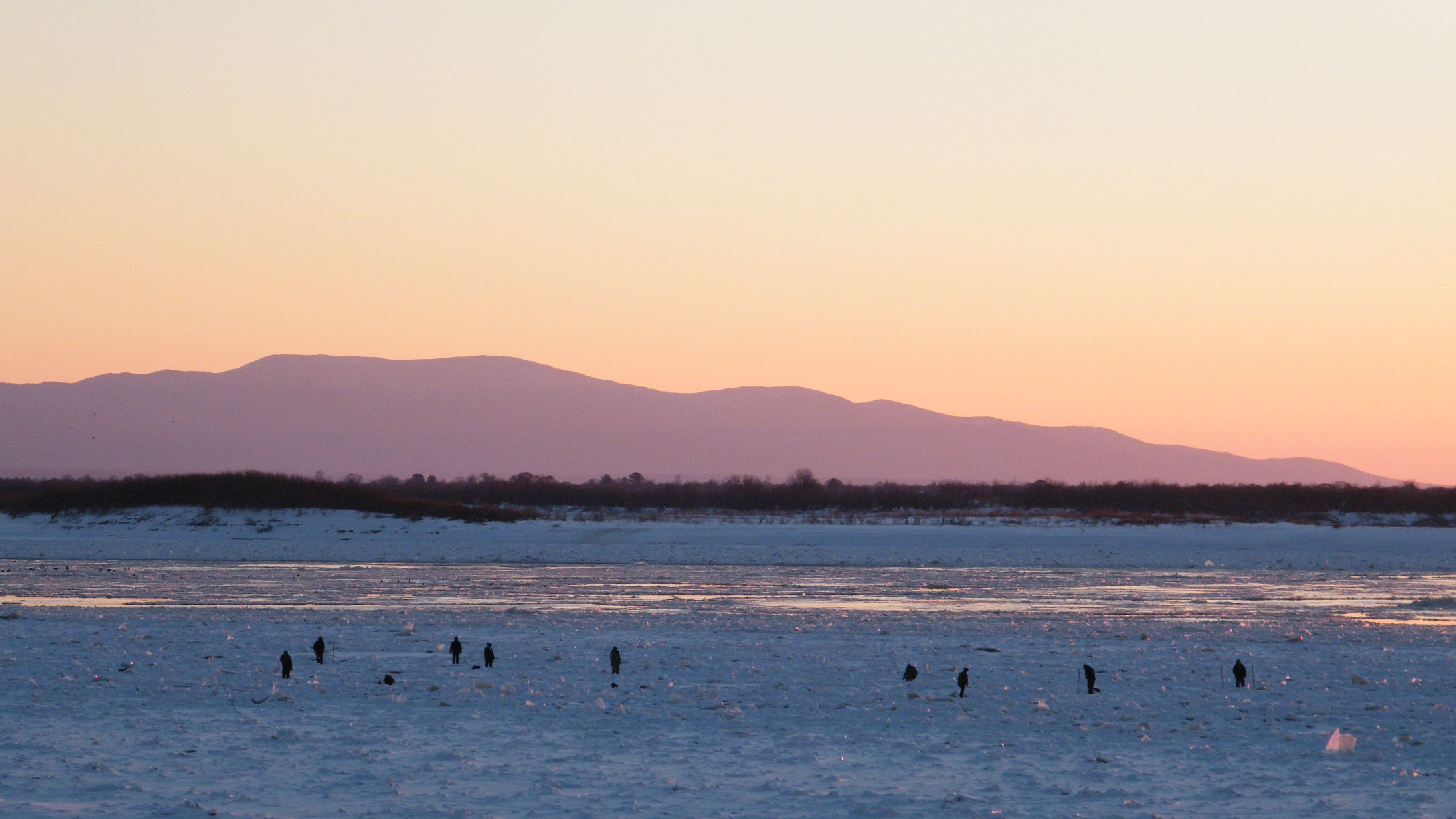 Amur River